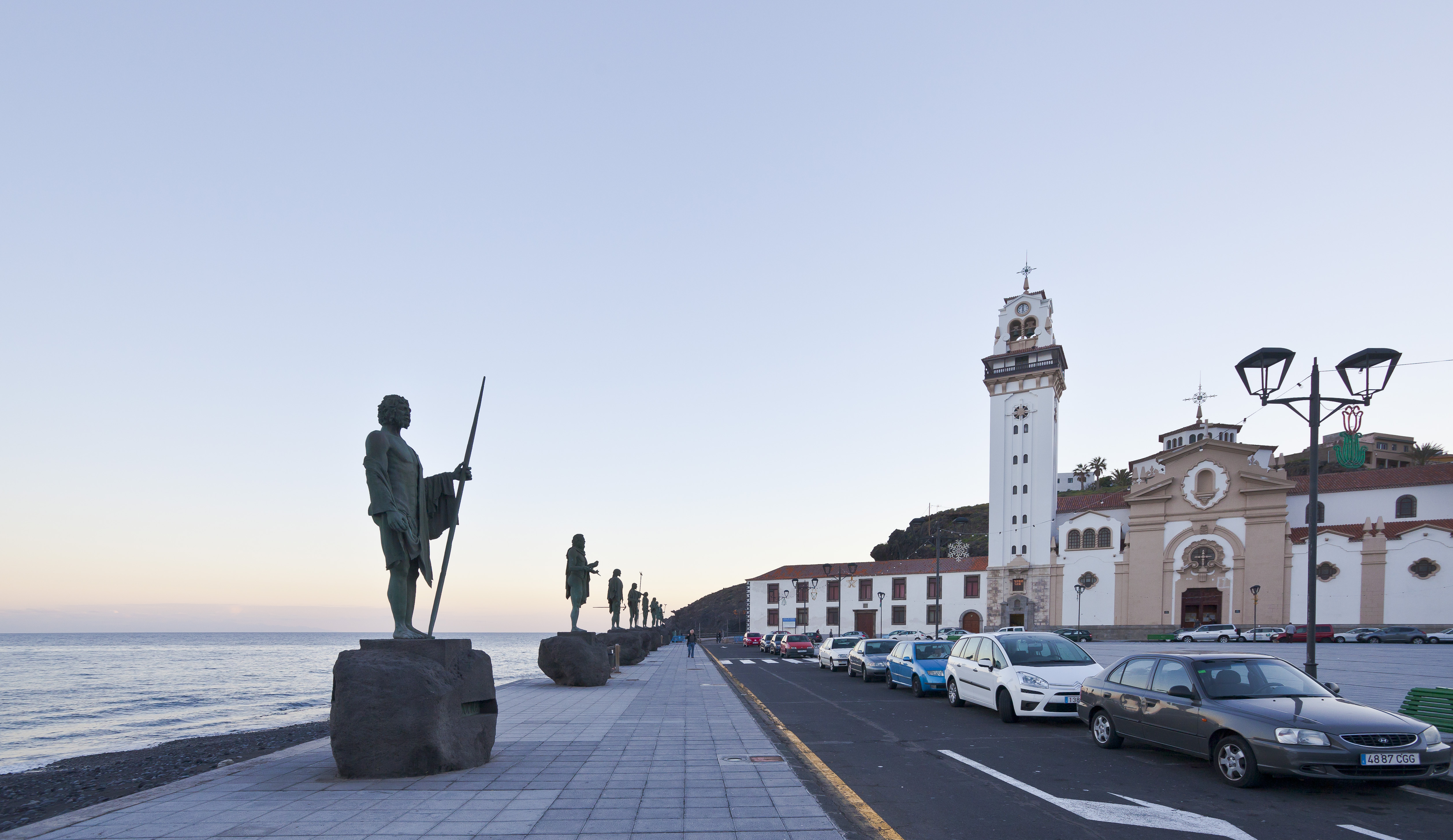 Basilica of Nuestra Señora de la Candelaria and sculptures of menceyes work of José Abad, Candelaria, Tenerife, Spain